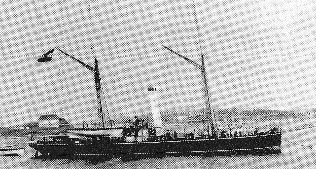 The Austrian gunboat S.M.S. Gemse, launched in 1861. The Gemse has the distinction of being the first ship to launch a torpedo, being used as test-bed for trials with the first Whitehead torpedoes at Fiume in 1868.